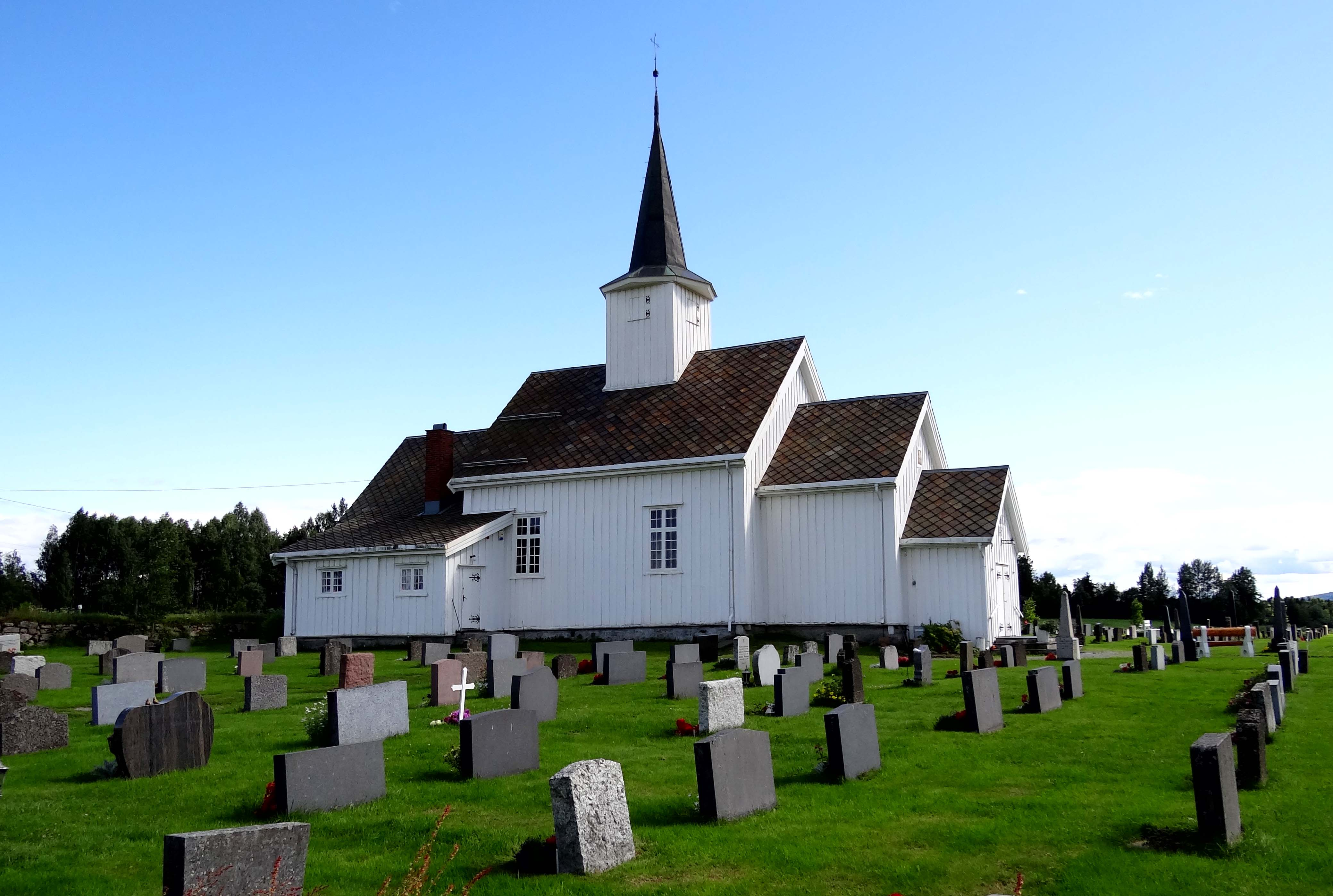 Bjørke church in Maura, Nannestad, Norway